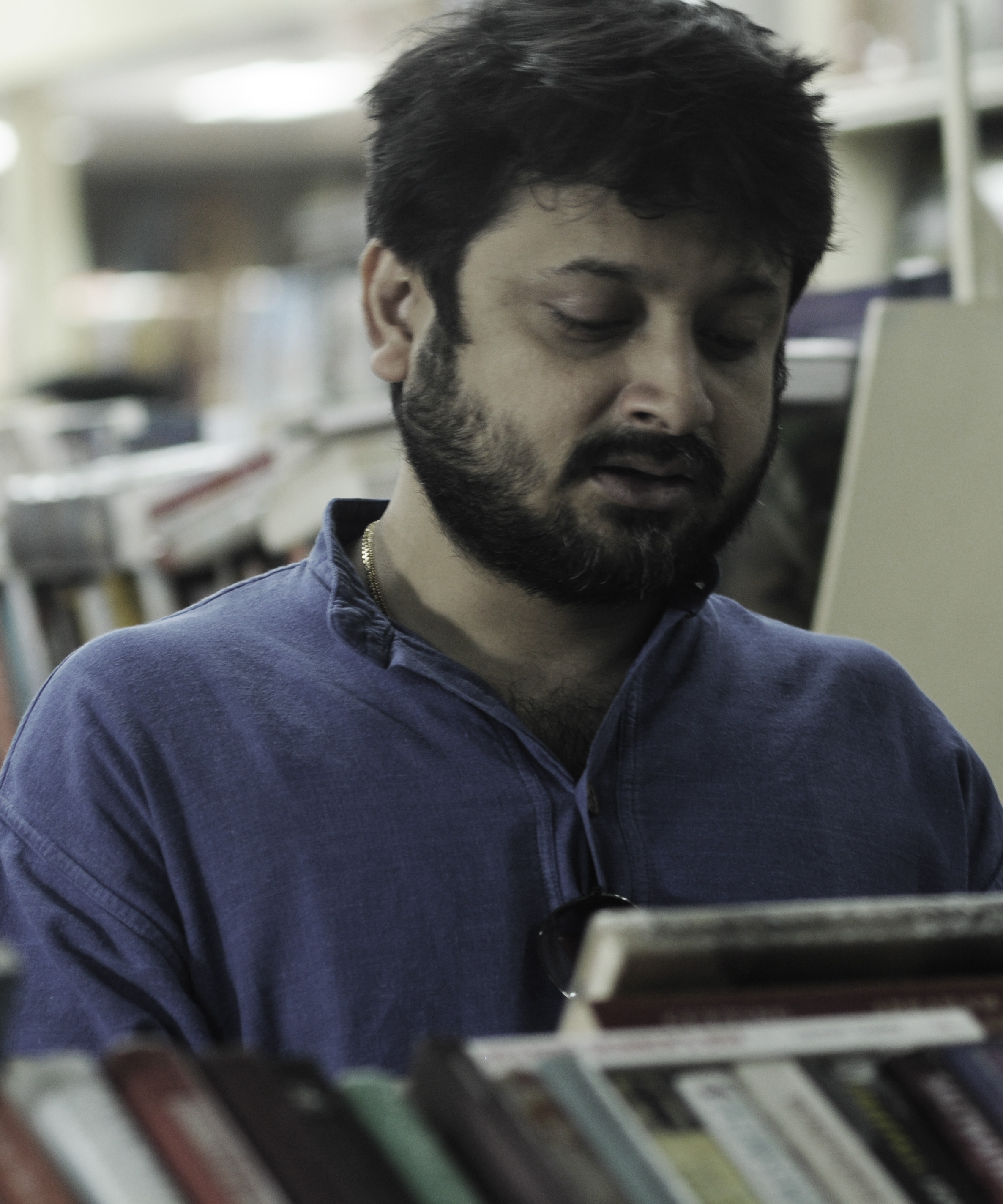 The Bengali Indian Film maker Shiboprosad Mukherjee browsing films.